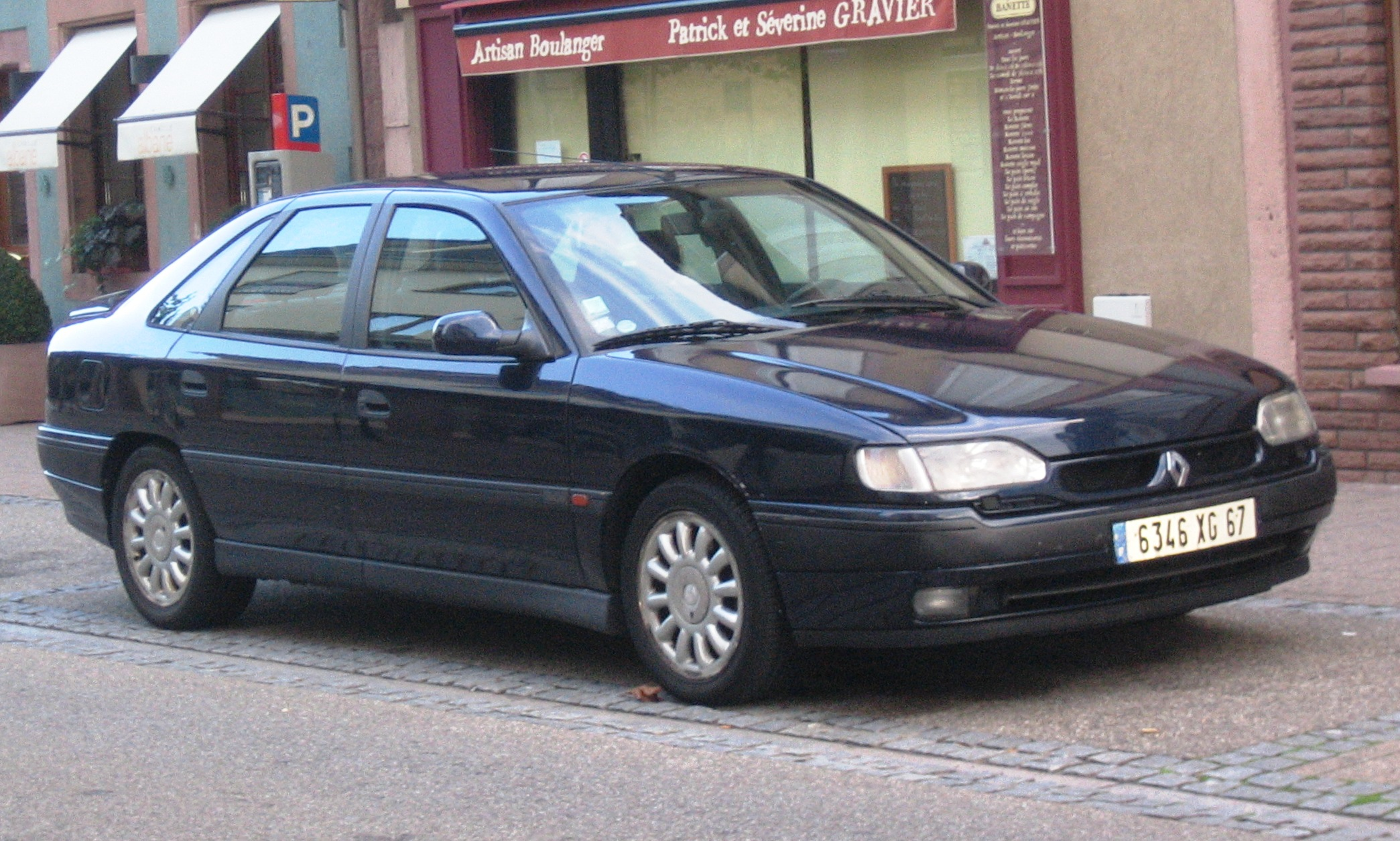 This is an early Renault Safrane - before any facelifts - photographed in Wissembourg